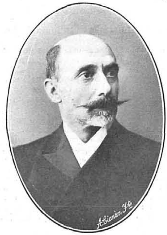 portrait of Joaquin Llorens Fernandez, a Carlist deputy to the Spanish Cortes, as published in La Ilustración española y americana of 30.07.1909